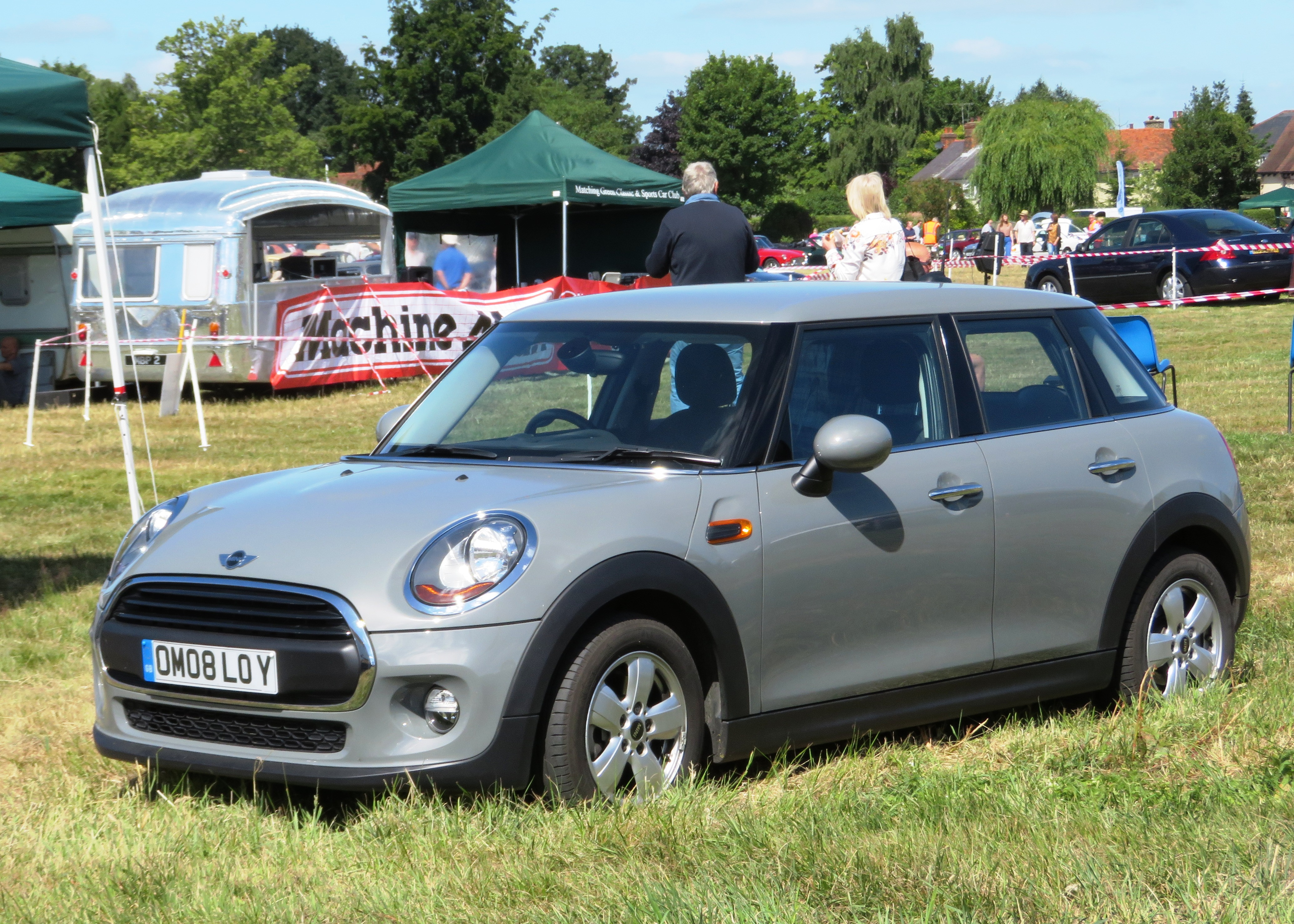 Mini F55 5-door